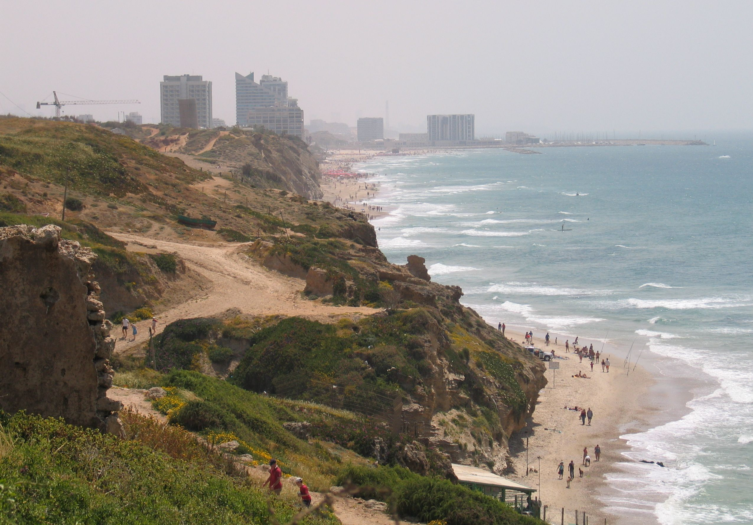 Apollonia National Park, Israel.